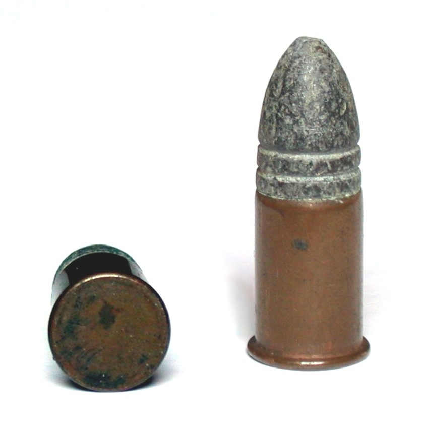 Spencer .56-56 rimfire cartridge, bullet diameter 5.47 inch